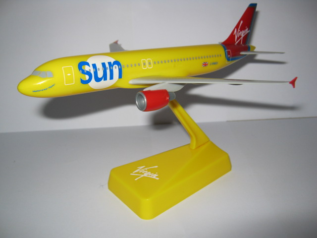 Virgin Sun A320 Model